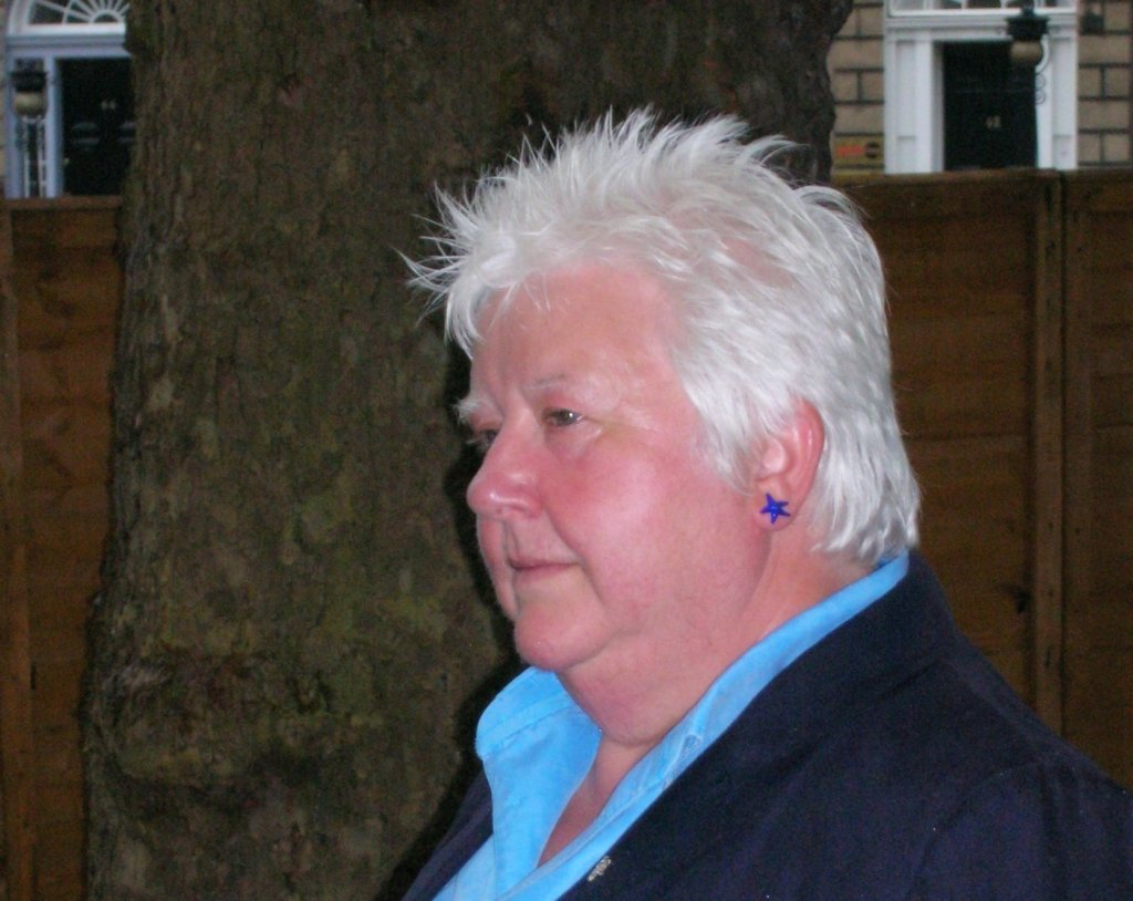 portrait Val McDermid 2007